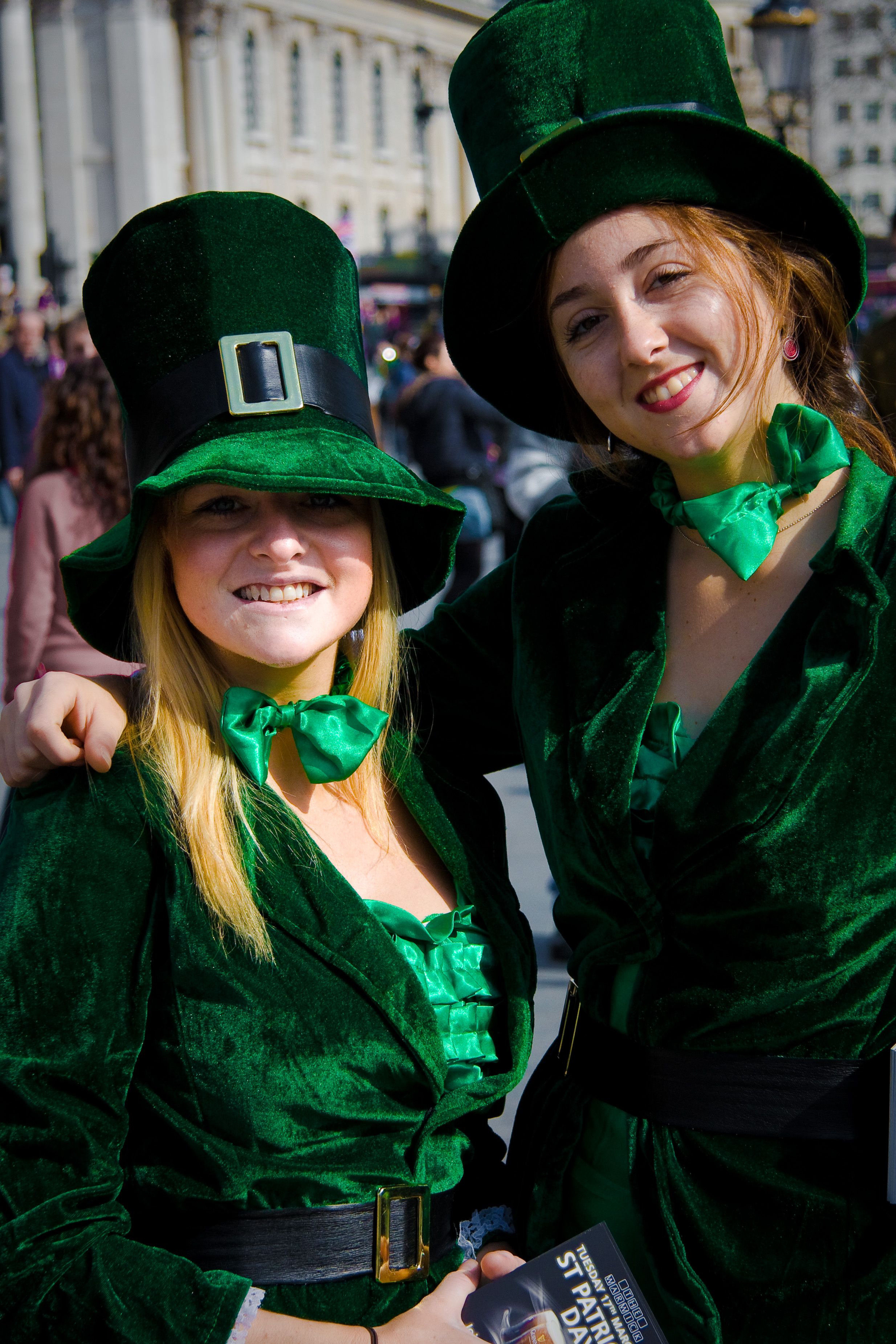 Saint Patrick's Day in London. The young lady on the left is Australian, the one on the right says she's "from Australia, and from France". But then, everyone's Irish on St Patrick's Day.